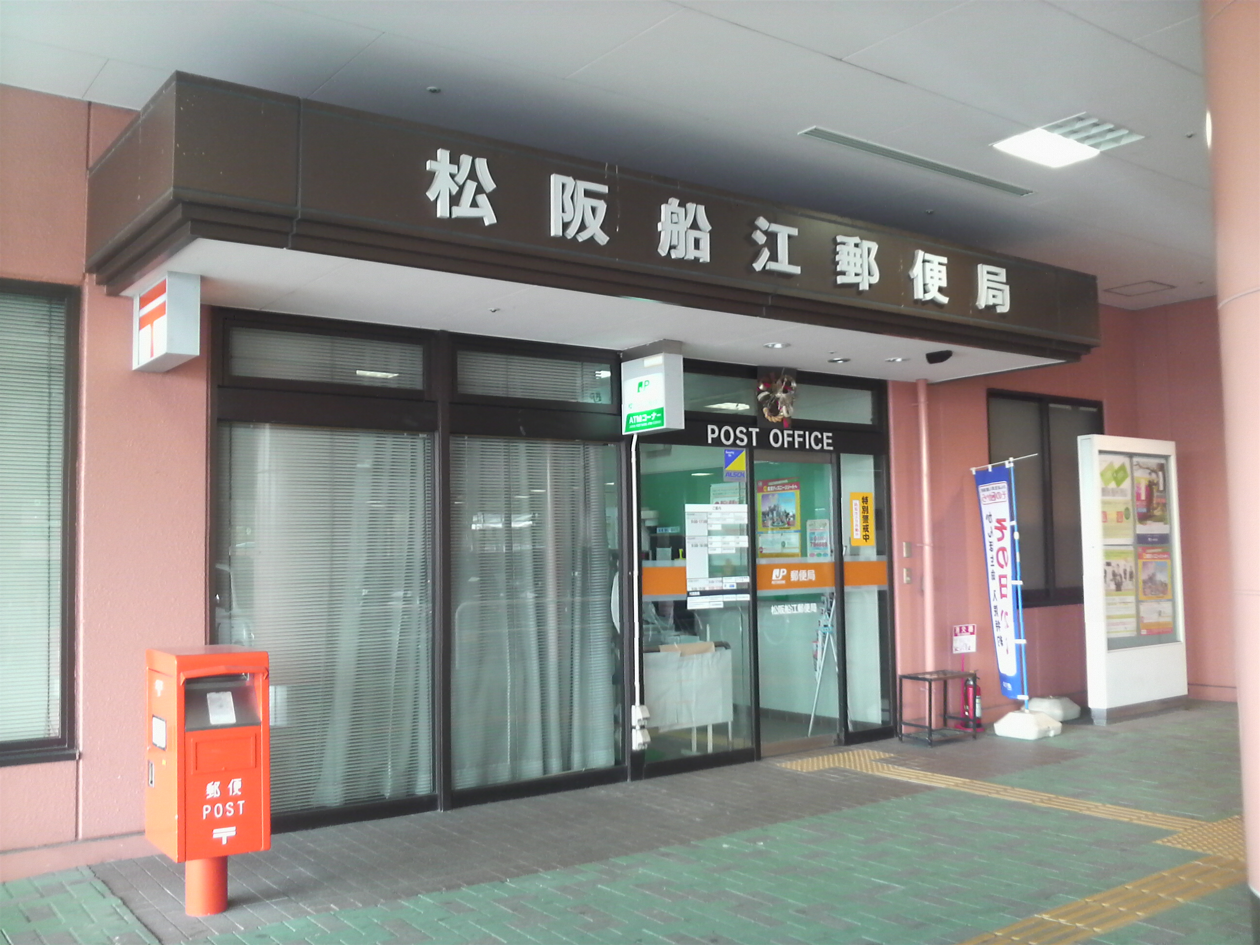 The "Matsusaka-Funae Post Office" in Matsusaka city, Mie Prefecture, Japan.